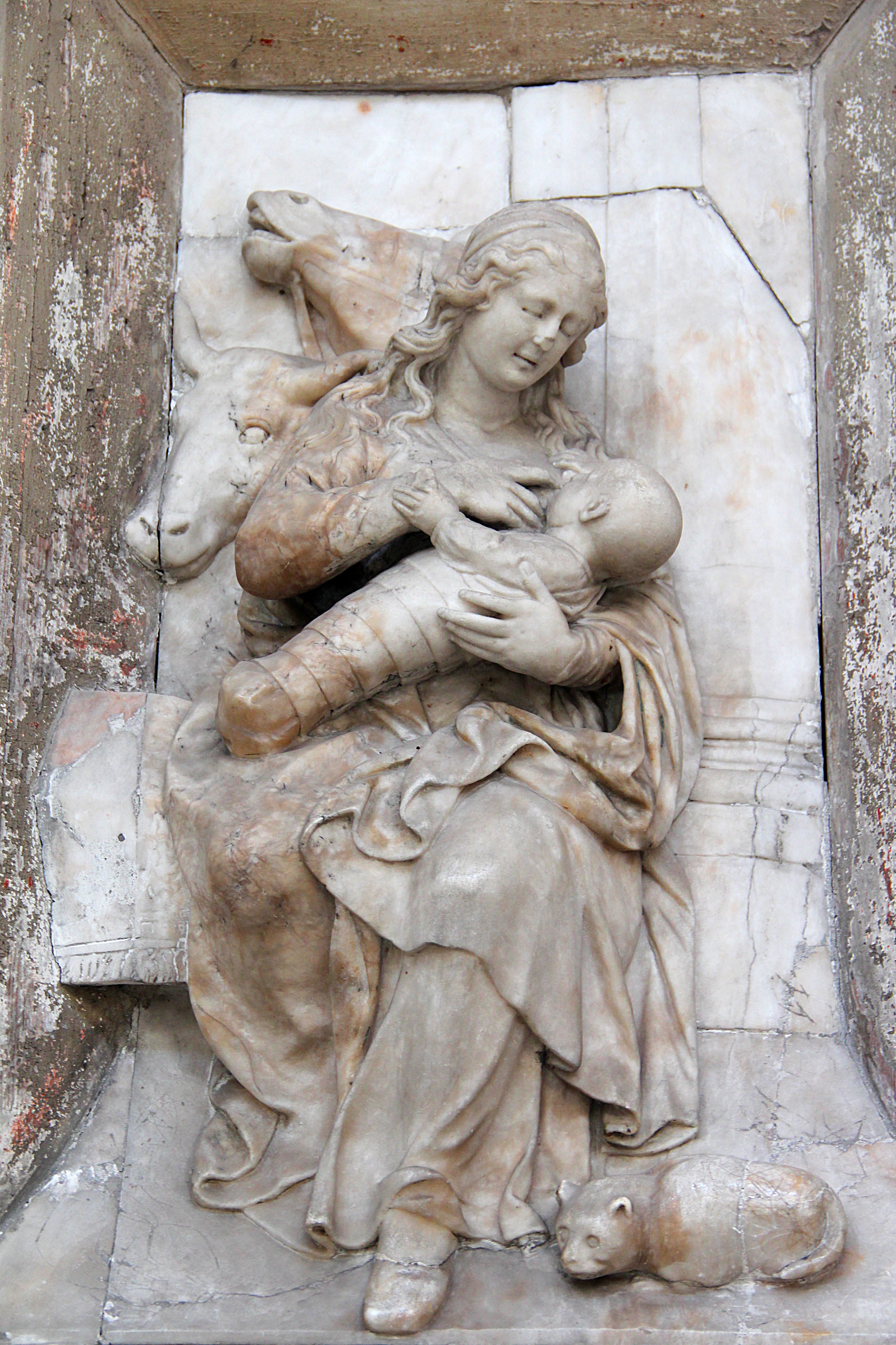 "La Vierge au chat" (The Madonna of the Cat), relief by Jacques Du Brœucq - Cathedral of Notre-Dame de Saint-Omer (Pas-de-Calais, France).